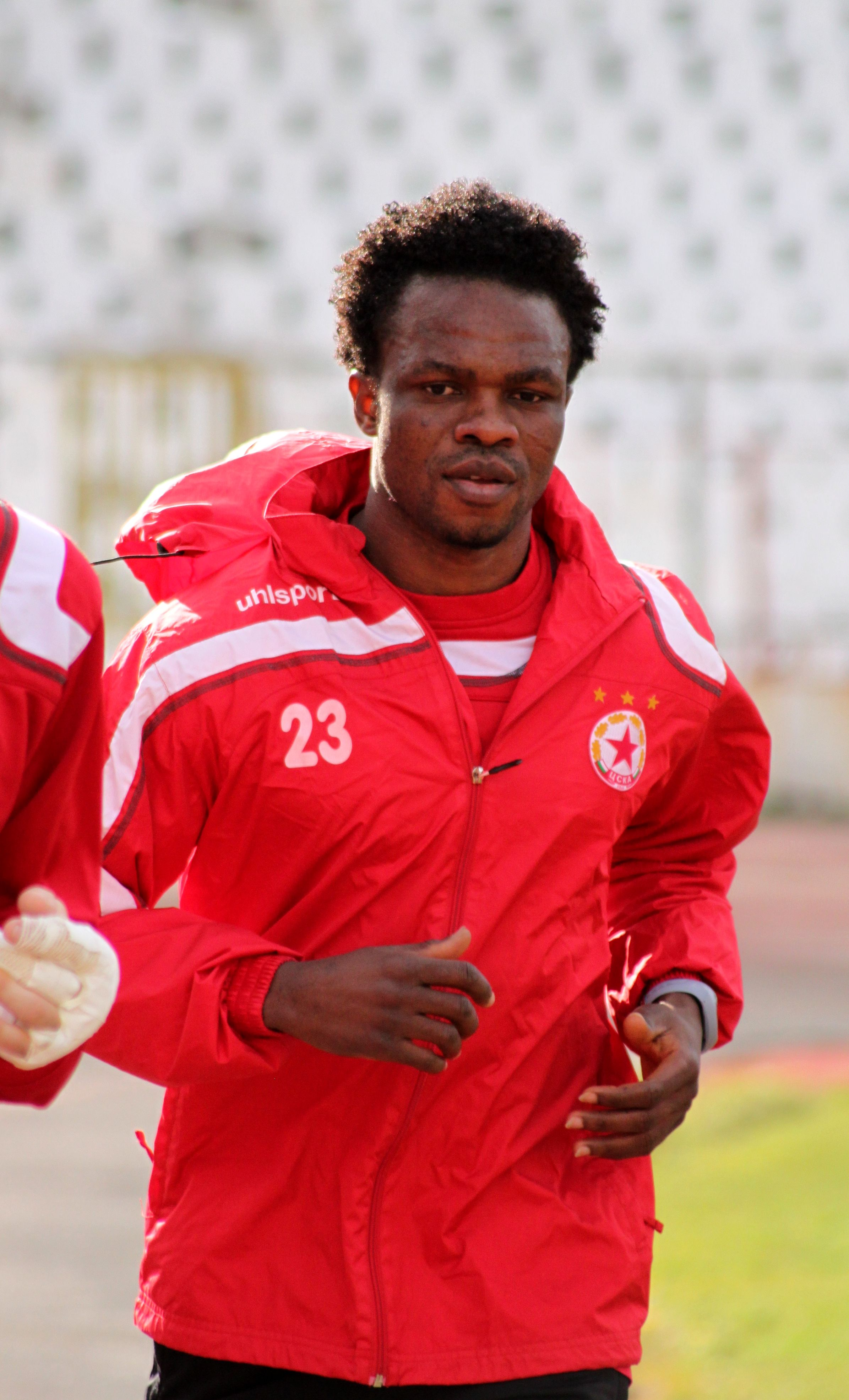 William Kwabena Tiero (born 3 December 1980) is a Ghanaian football player who plays for Bulgarian side CSKA Sofia.